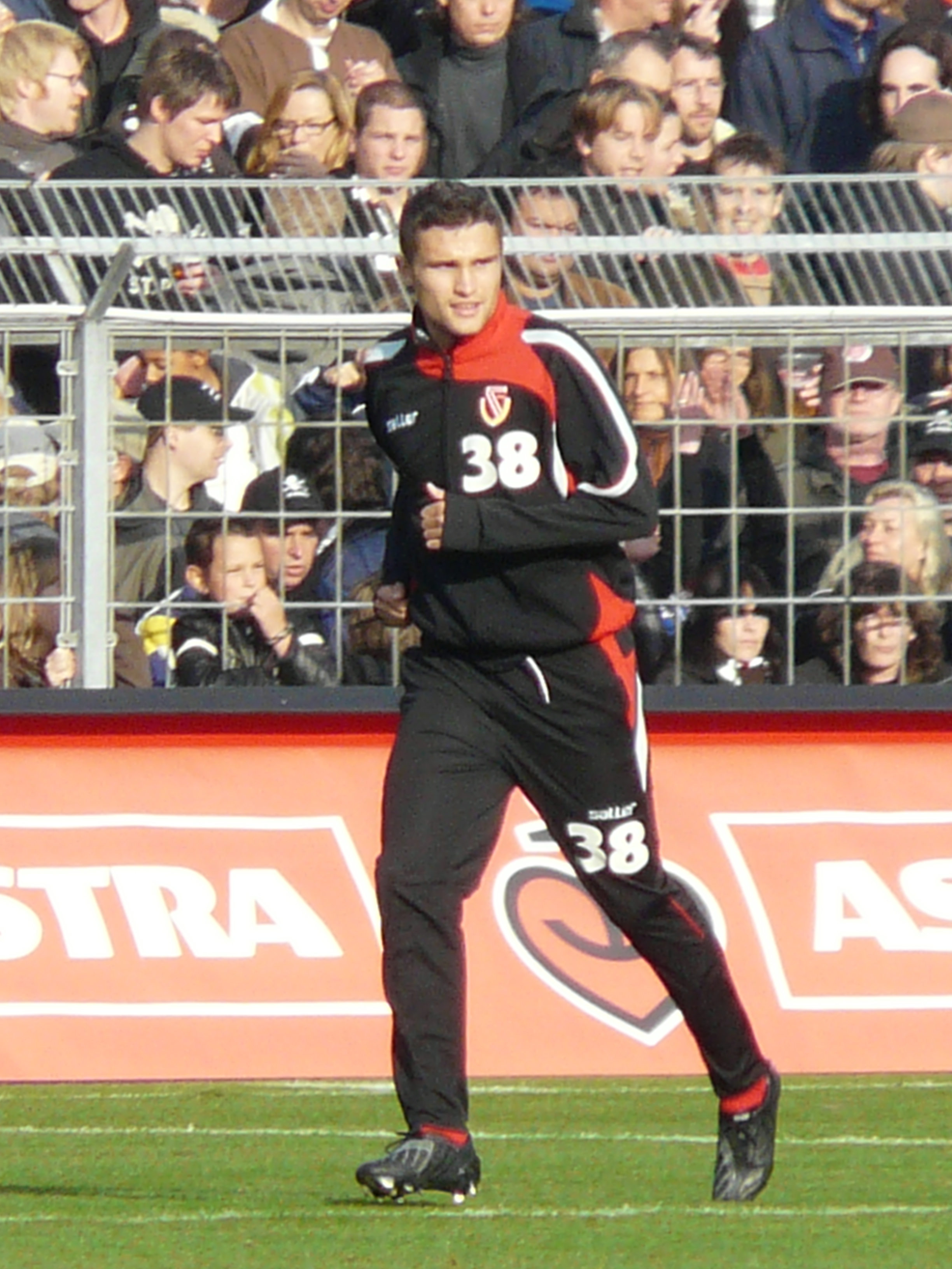 Adam Straith as Player from Energie Cottbus